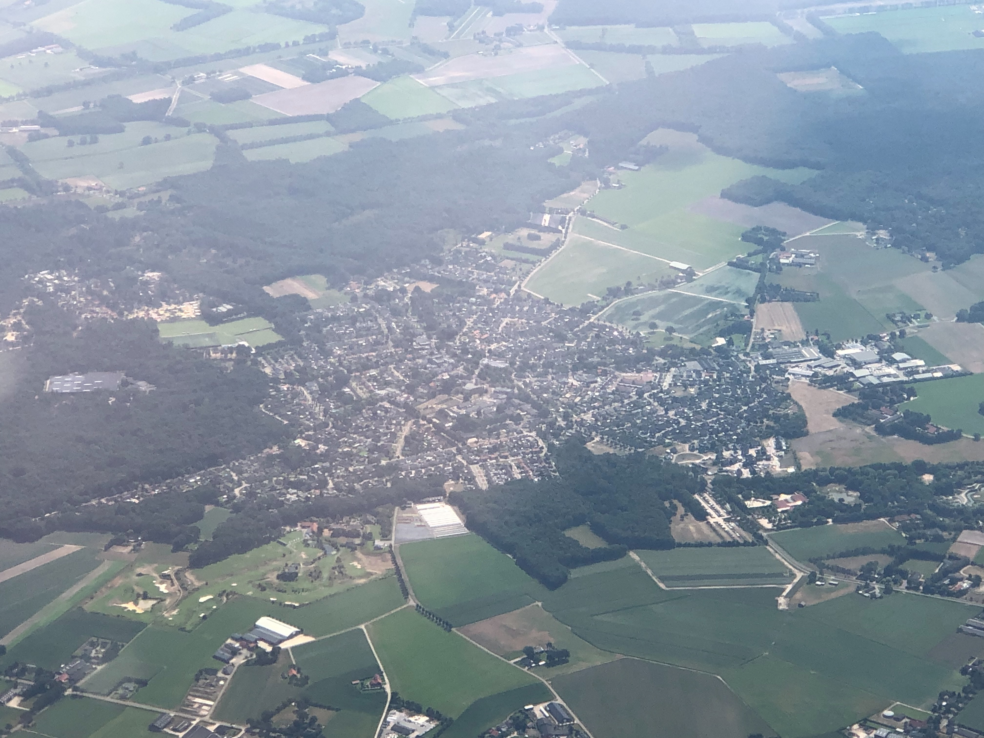 Overloon, Netherlands, August 5th